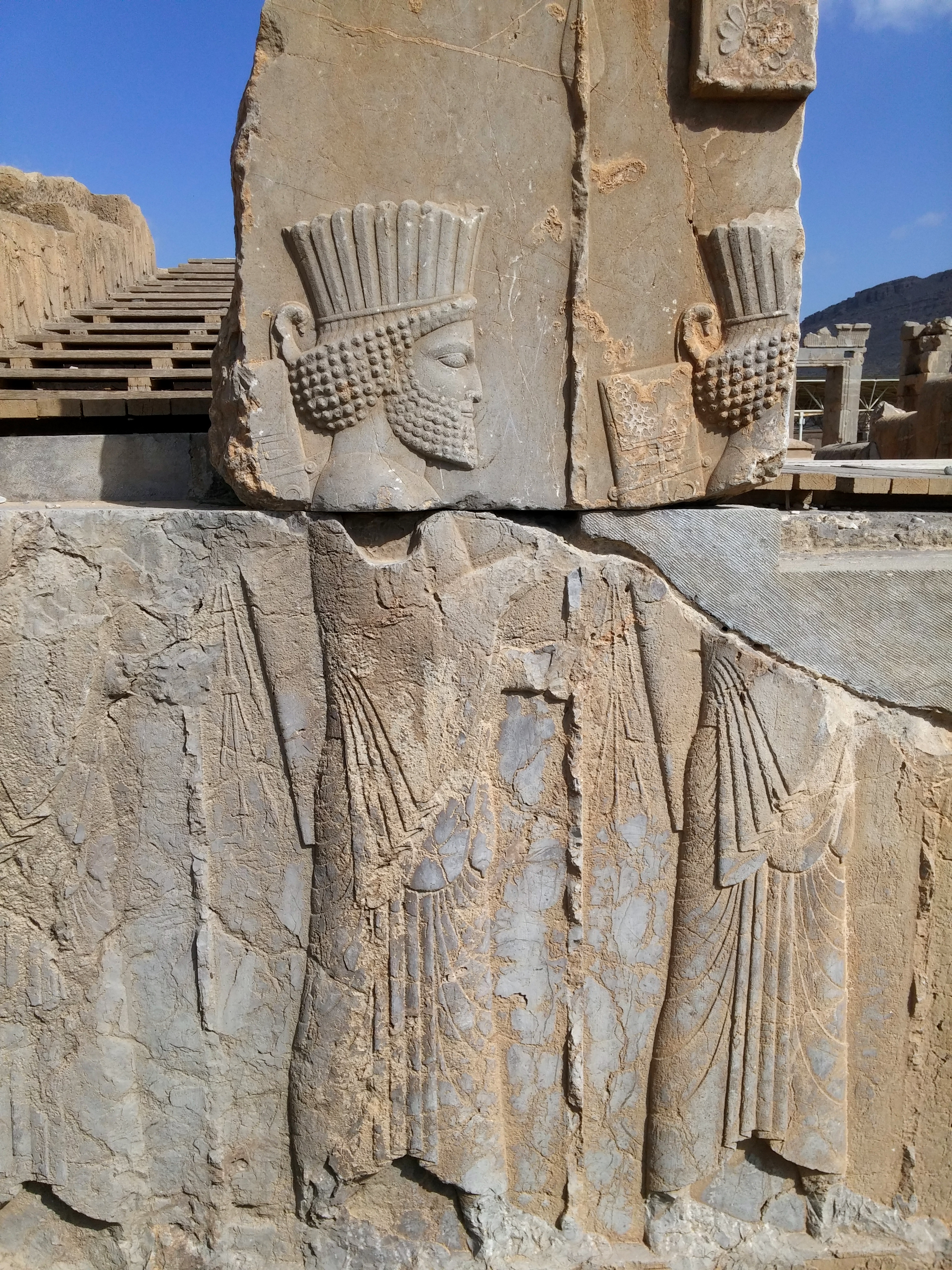 A rock-face relief of Persian soldiers_ Sahand Ace